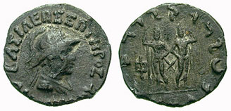 Coin of the Indo-Graeco king Diomedes